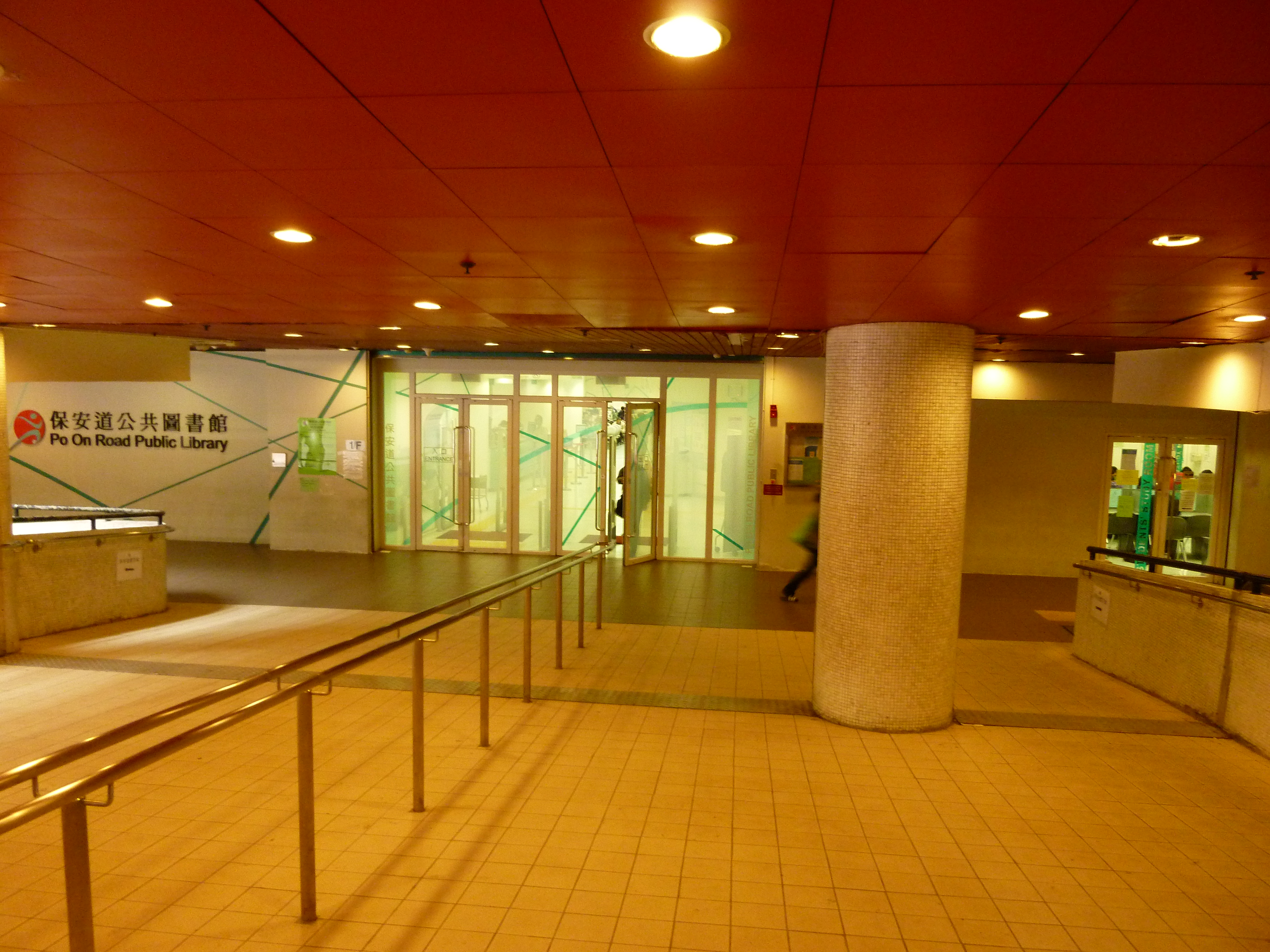 Po On Road Public Library (2/F, Po On Road Municipal Services Building, 325-329 Po On Road, Sham Shui Po, Kowloon, Hong Kong)